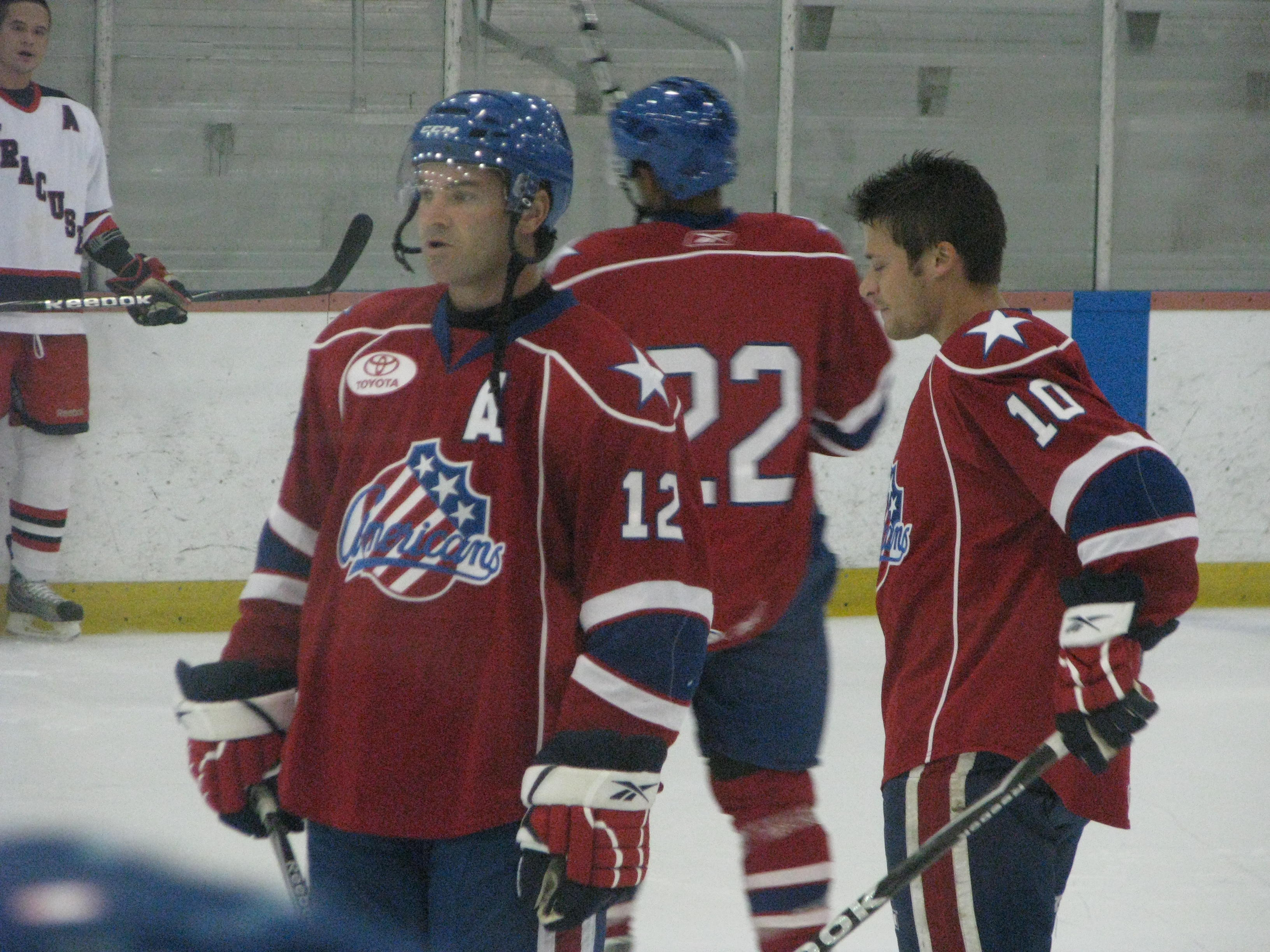 Chris Taylor (left) with Jamie Johnson (right)